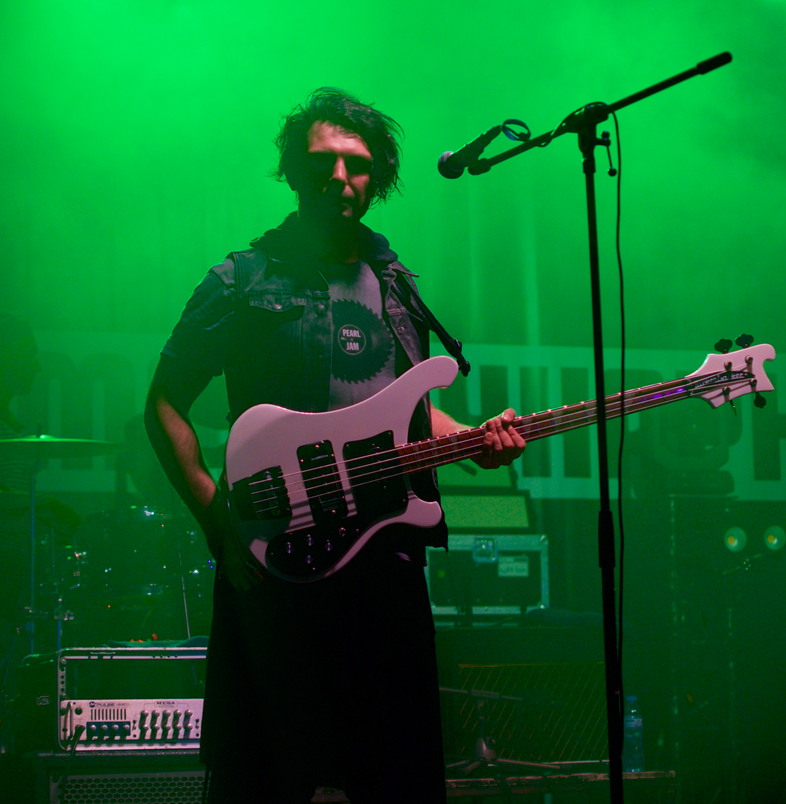 The Bulgarian musician Emiliyan Bonev.